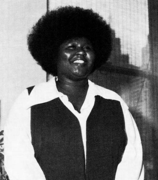 Trade ad for Jackie Moore's single "Precious, Precious". To better adapt it to his respective Wikipedia article, the ad was cropped and cleaned in a graphics editing program. The original can be viewed at the source below.